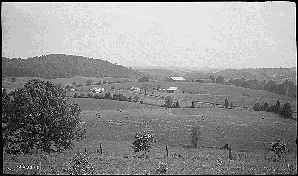 View of Rockford, Tennessee, USA, in 1942.